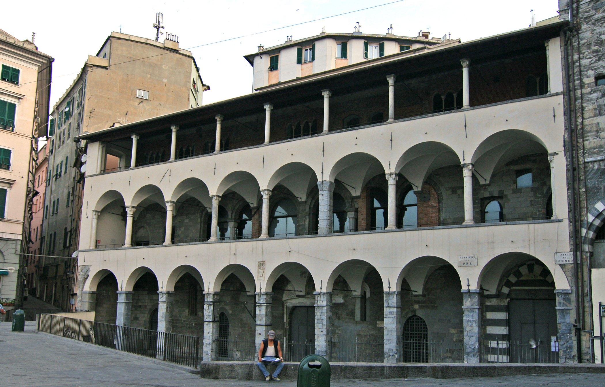 Loggia of the Commenda di San Giovanni di Pré, Genova.